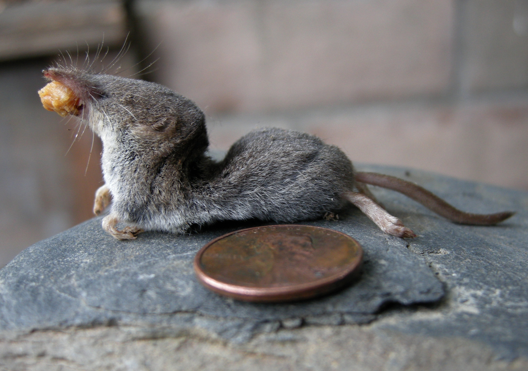 Trowbridge's Shrew (Sorex trowbridgii) observed by bob-dodge published with captionː "This is a Trowbridge Shrew, confirmed by Targe Lindsay at Stanford. It was caught in a rat trap, hence the swayback. It still has some peanut butter in its' mouth. The penny is for size comparison. I have since caught several of these small rodents which explain sprung traps but no evidence of what did the springing."